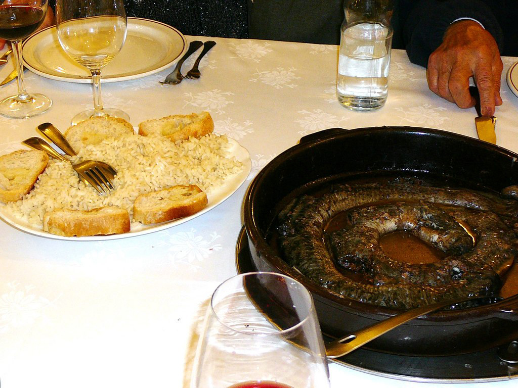 Lamprey in bordelaise sauce served with cooked rice and picatostes (picture taken at the Victoria restaurant, located in Forcarei, Galicia, Spain).